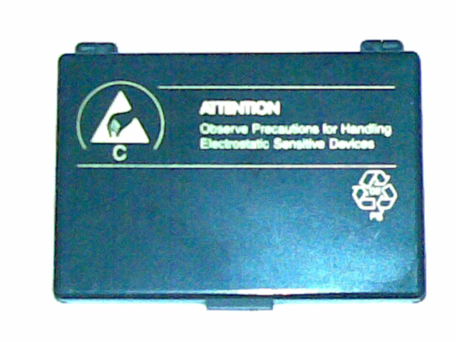 Copolymer polypropylene boxes for the protection of integrated circuits against electrostatic discharge.